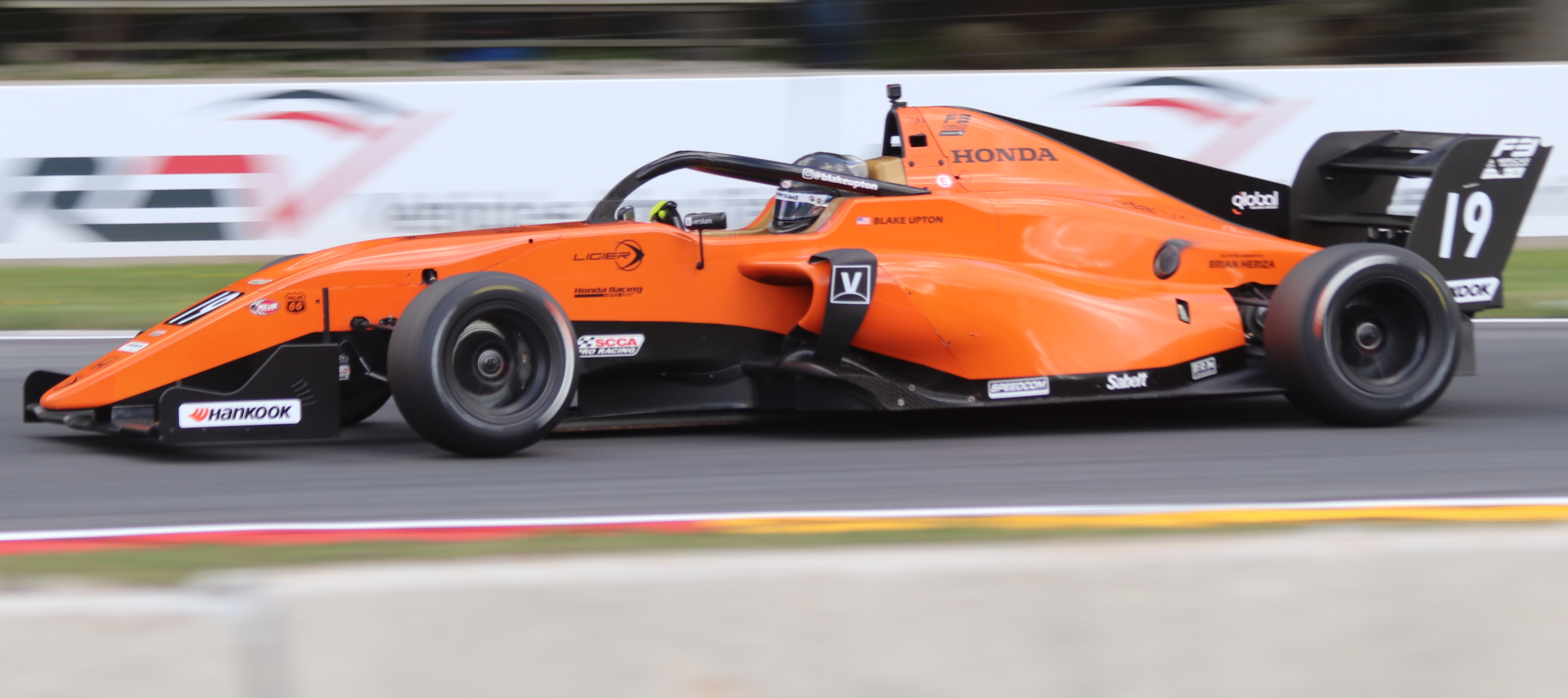 The F3 Americas Championship car of Blake Upton at Road America